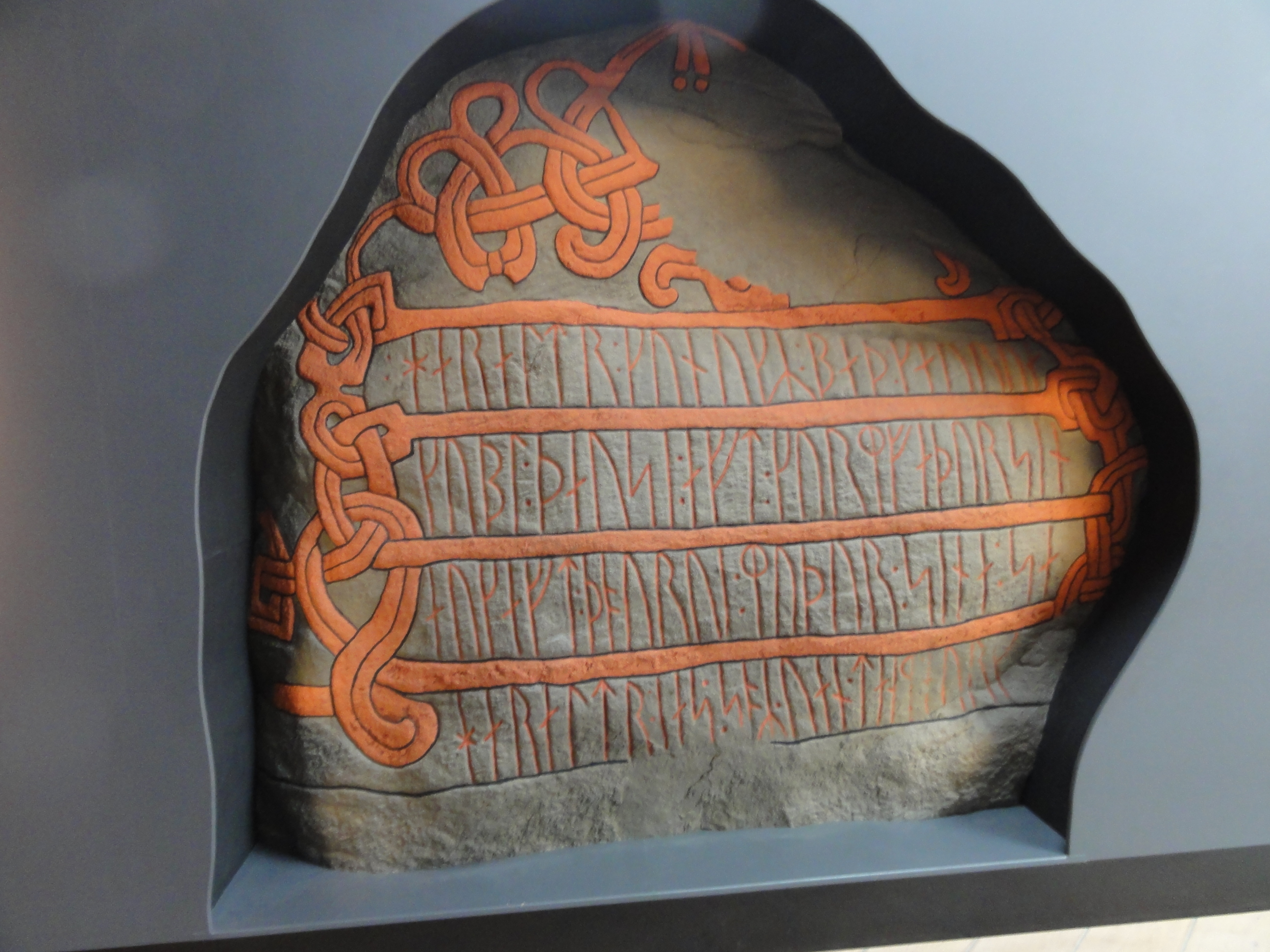 Jelling, Danemark